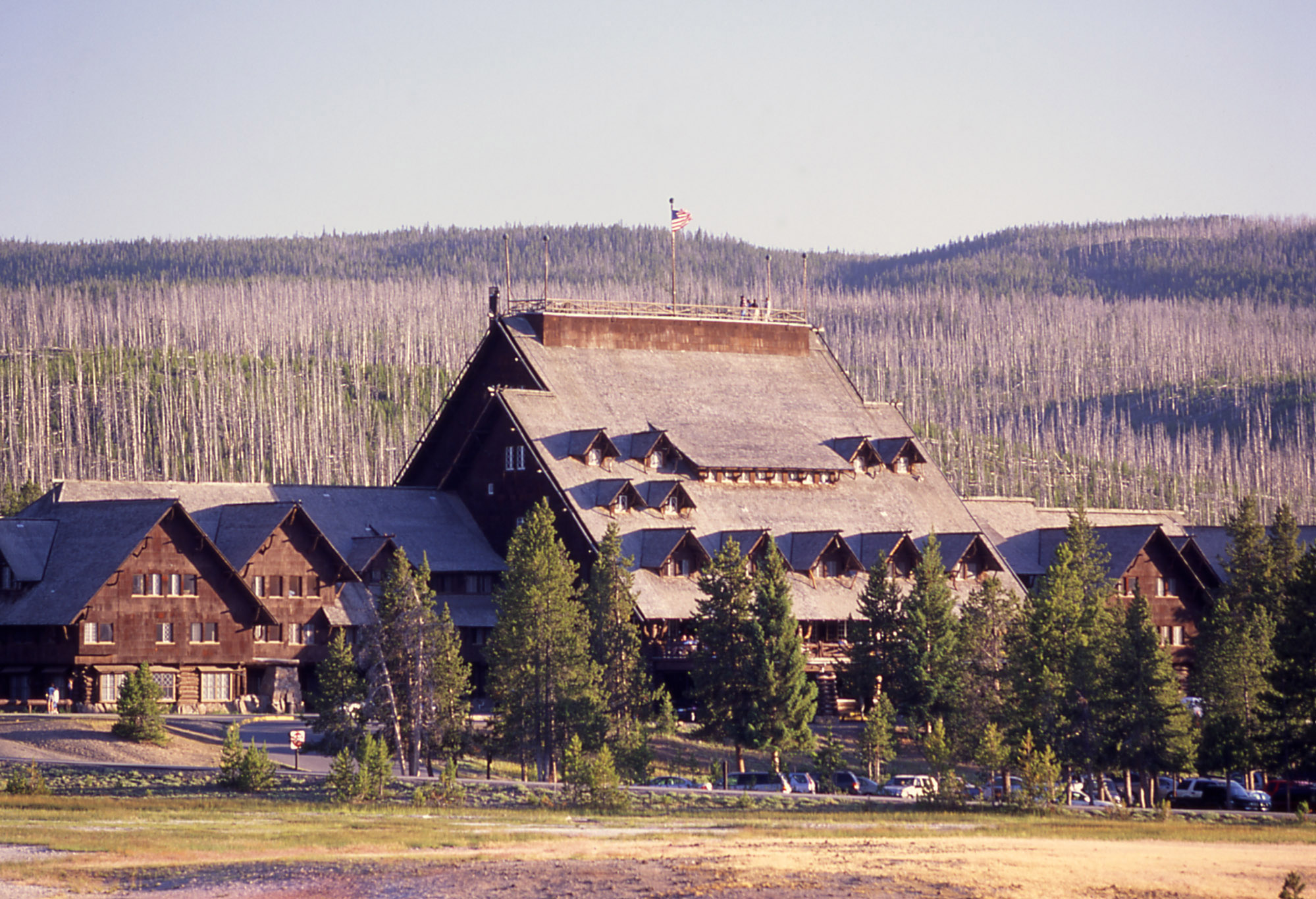 Old Faithful Inn main facade from vicinity of Firehole River, Yellowstone National Park, USA